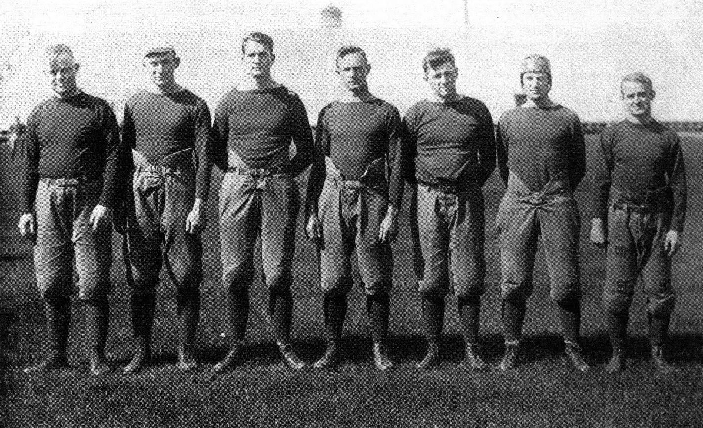 Photograph of coaching staff of the 1921 Michigan Wolverines football team, from left to right: Fielding H. Yost, Elton Wieman, Angus Goetz, Ray Fisher, E. J. Mather, A. J. Sturzenegger, and Archie Hahn